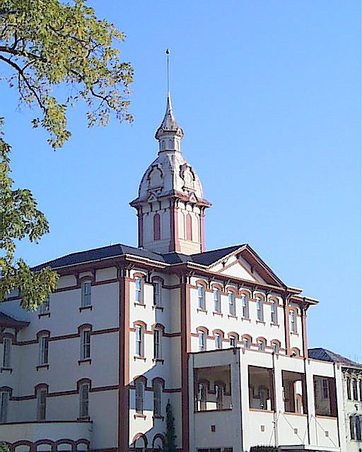 Facade above main entryway of main building of Oregon State Hospital, Salem, Oregon, United States